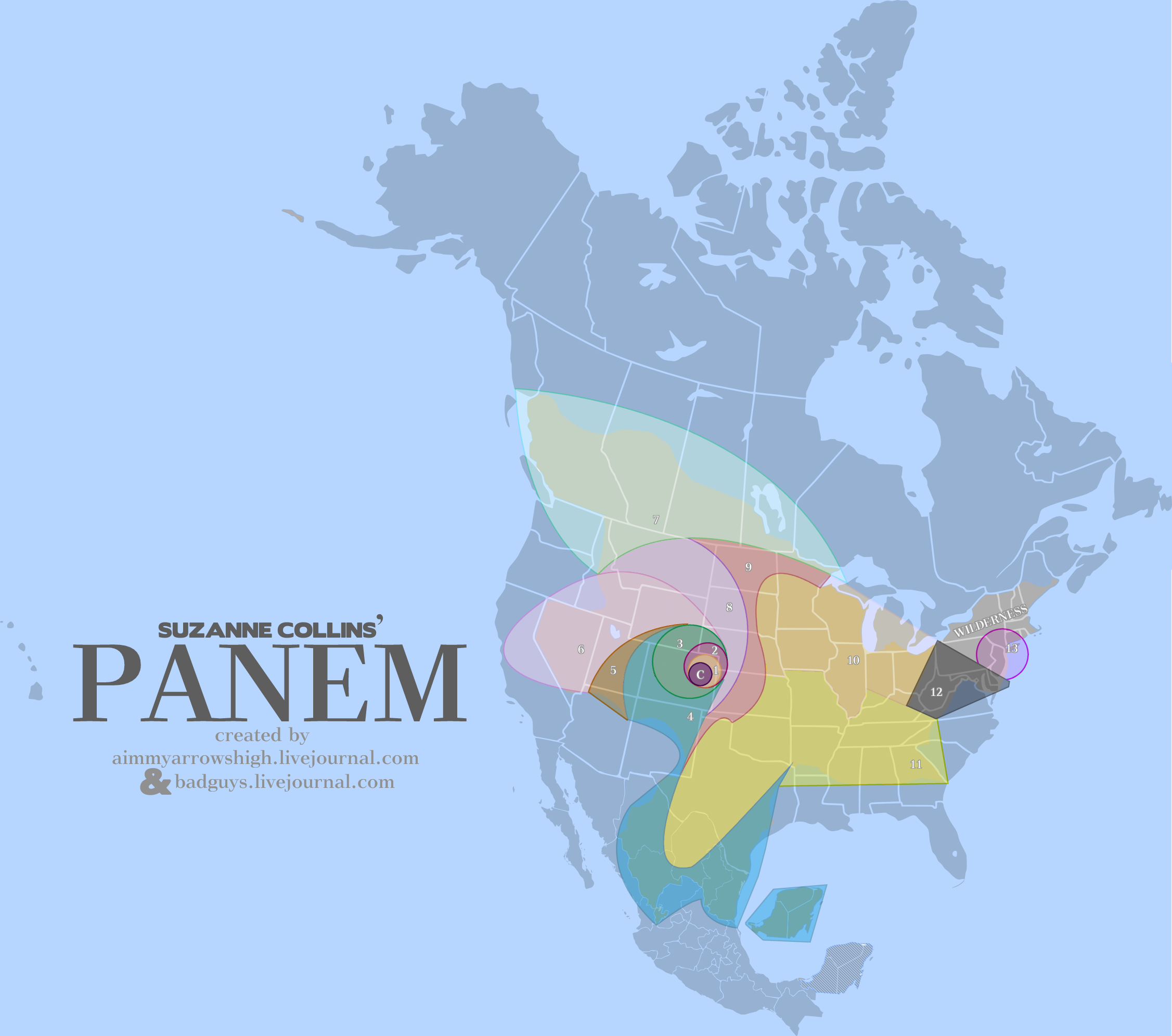 A map of the fictional nation of Panem from Suzanne Collins' "The Hunger Games."